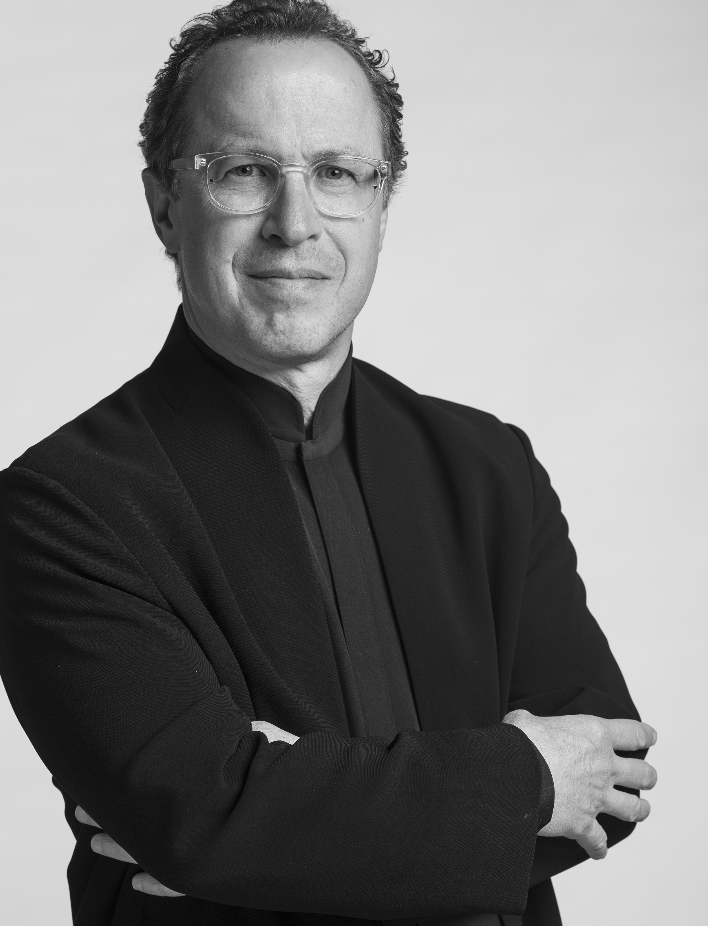 Grammy Award-winning conductor David Alan Miller has established a reputation as one of the leading American conductors of his generation. Music Director of the Albany Symphony since 1992, Mr. Miller has proven himself a creative and compelling orchestra builder. Through exploration of unusual repertoire, educational programming, community outreach and recording initiatives, he has reaffirmed the Albany Symphony’s reputation as the nation’s leading champion of American symphonic music and one of its most innovative orchestras.